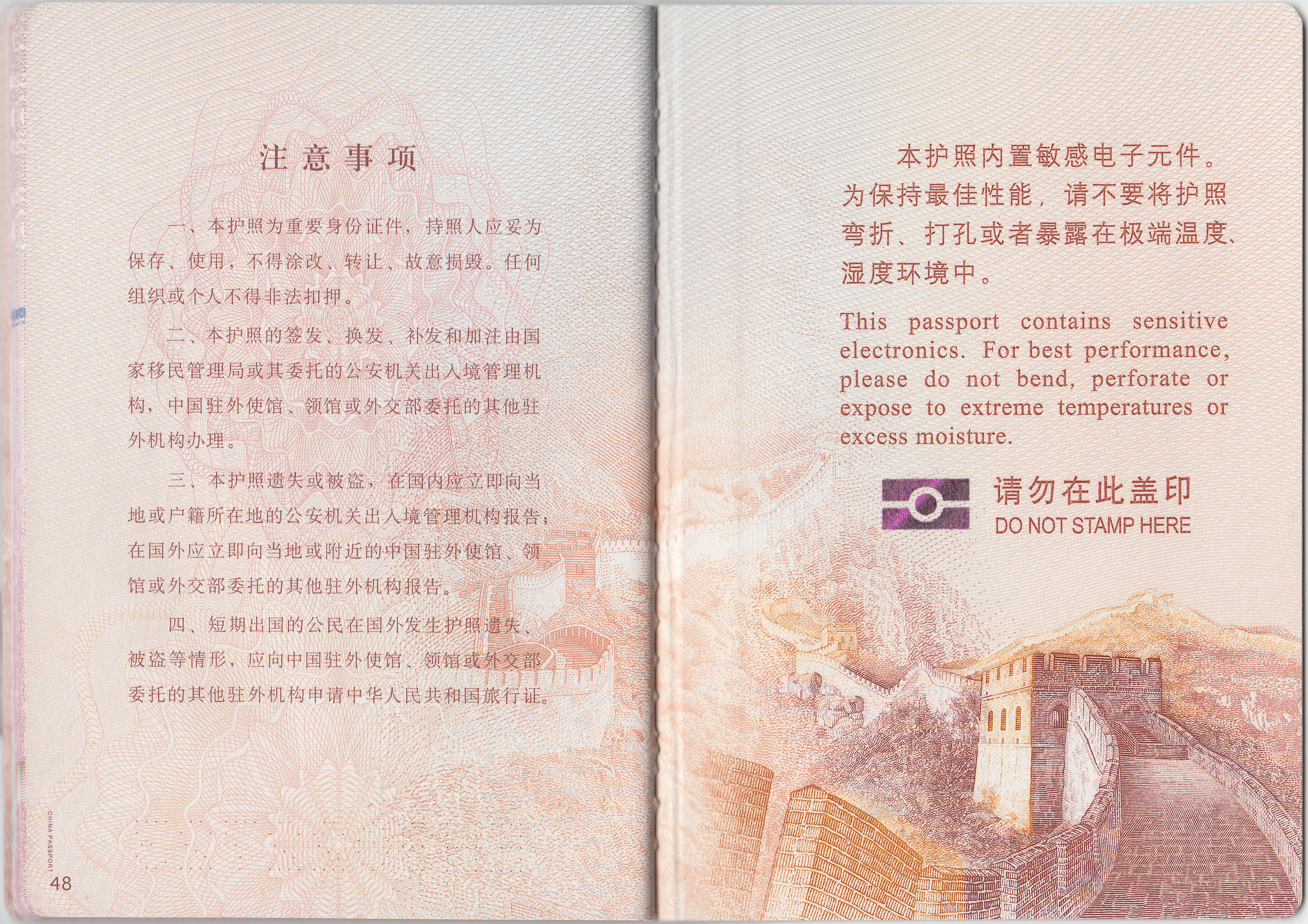 Note Page of PRC Ordinary E-Passport